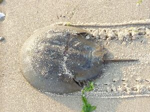 Horseshoe Crab on the beach, Delaware, USA